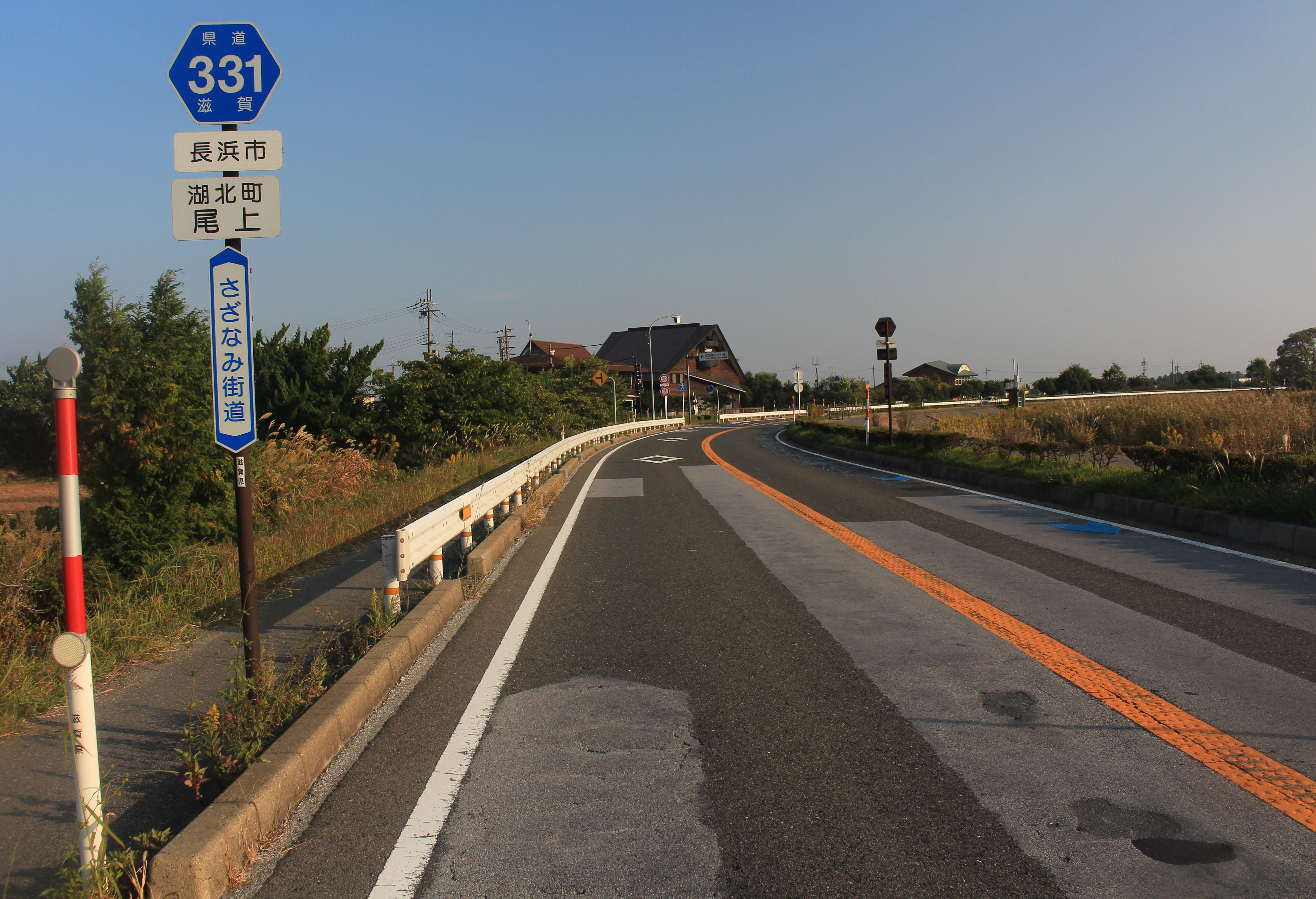 Shiga prefectural road 331 in Kohoku, Nagahama, Shiga prefecture, Japan.